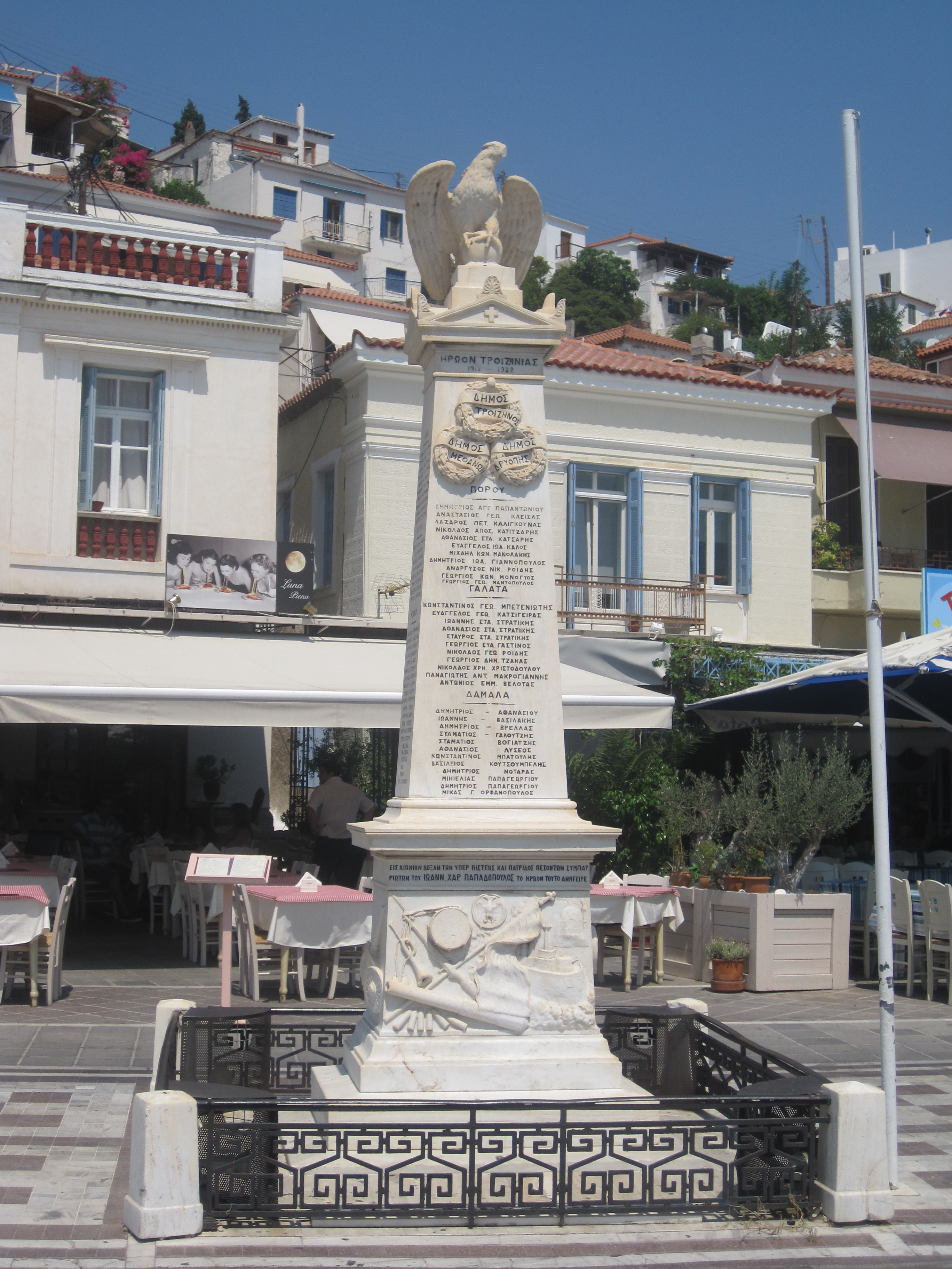 Poros